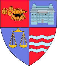 Coat of arms of Mureș County, Romania.